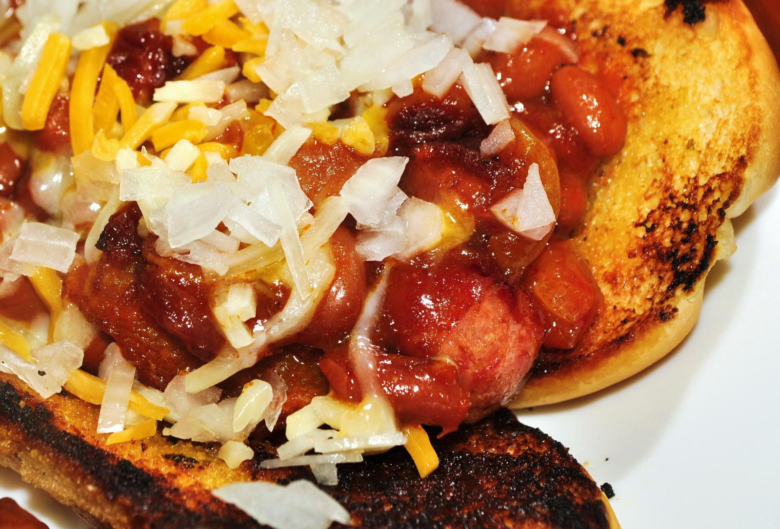 Hot dog with beans, cheese and onion